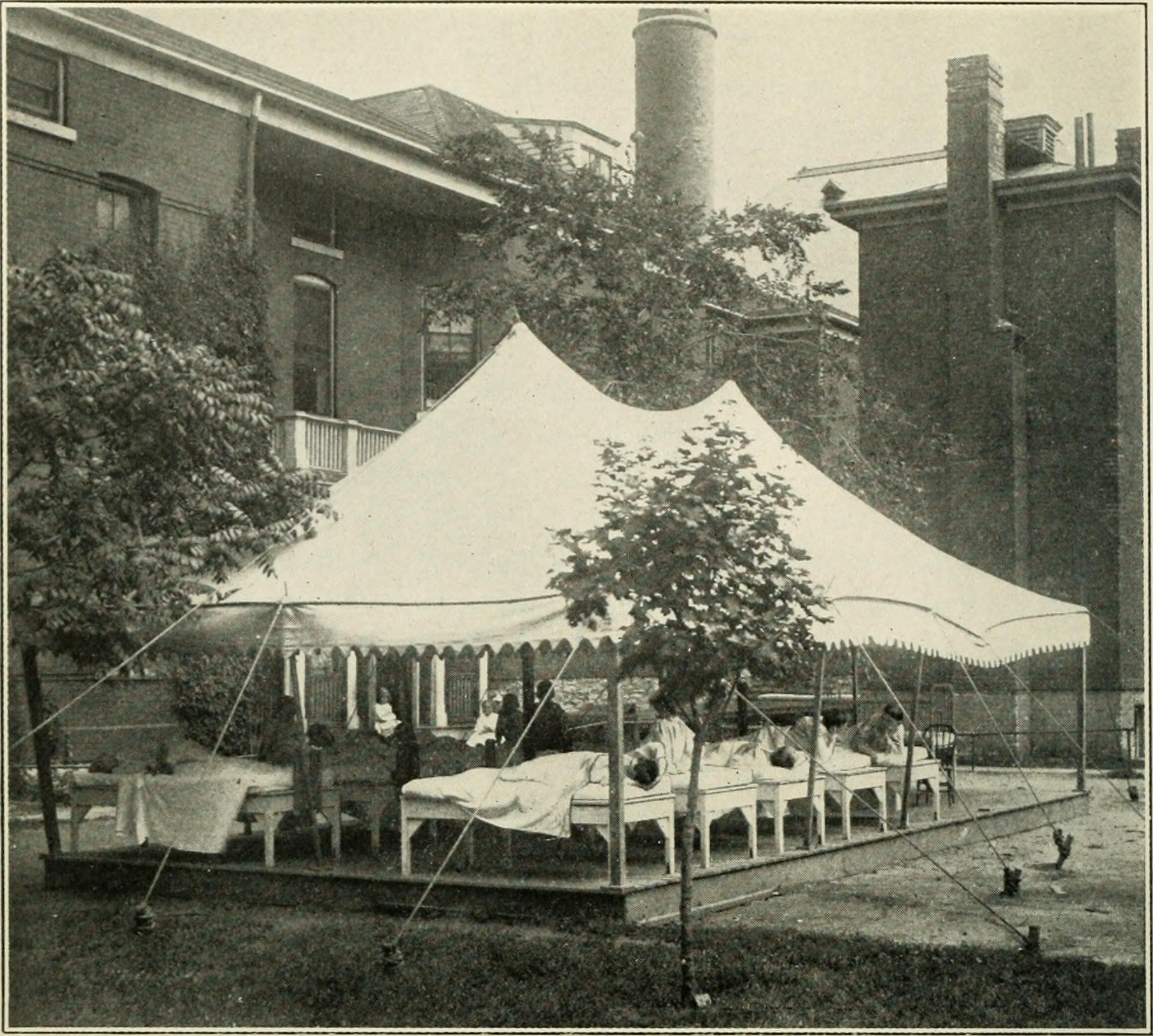 Title: Transactions of the sixth International congress on tuberculosis. Washington, September 28 to October 5, 1908 Year: 1908 (1900s) Authors: International Congress on Tuberculosis (6th : 1908 : Washington, D.C.) Subjects: Tuberculosis Tuberculosis Tuberculosis Tuberculosis Tuberculosis Societies, Medical Publisher: Philadelphia, W.F. Fell company Text Appearing Before Image: eux, y compris Iempyemede la plevre. Dans certains cas qui setaient montres longtemps r^fractairesau meilleur traitement medical et chirurgical, la suppuration a cess6 et laguerison sest produite en quelques semaines. Quand un sequestre est lefoyer de la maladie, it faut ordinairement Ienlever. Le sousnitrate debismuth est une chose excellente pour ce genre de traitement, car il estbactericide, sabsorbe lentement et na pratiquement pas de proprietestoxiques. Prophylaxie.—On pent empecher les traits fistuleux en ouvrant Iabcesfroid par une incision de trois quarts de centimetre: on fait ^vacuer le puset on remplit imm6diatement la cavite de Iabces avec une pate de bismuth-vaselin a 10 pour 100, sans fermer Iouverture. . Cela empeche une infectionsecondaire qui contre-indiquait jadis Iincision des abces tuberculeux. Rapport collectif des cas traites de cette maniere, depuis cinq mois, dansles hopitaux g^neraux, les hopitaux militaires et maritimes des Etats-Unis,et par les praticiens. Text Appearing After Image: Tent life for the tuberculous patients.